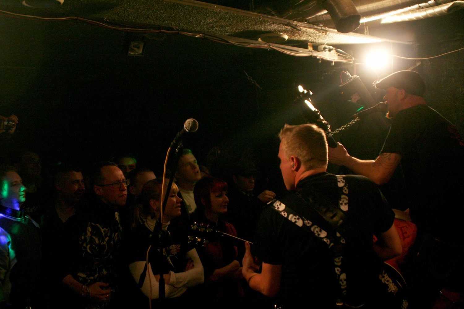 Johnny Nightmare on stage